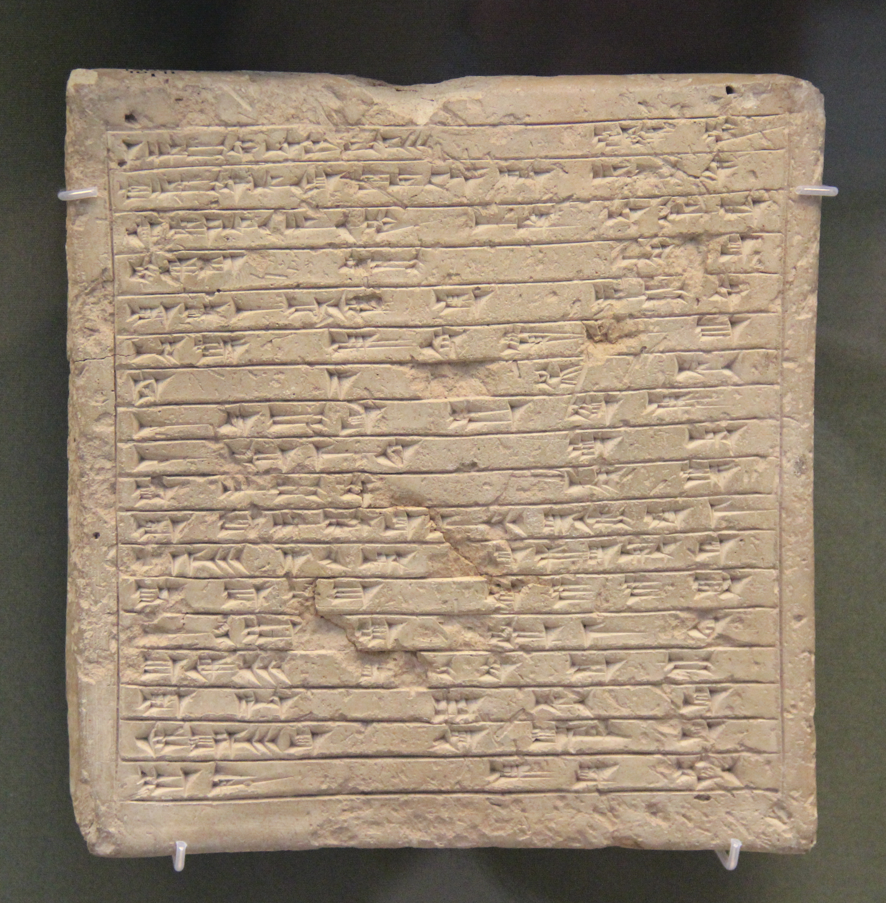 Assyrian Cuneiform Script - 36562326005 Mesopotamia 1500-539 BC Gallery, British Museum, London, England, UK. Complete indexed photo collection at . Tablet from the reign of Ashur-uballit I (Aššur-uballiṭ I), who reigned between 1365 and 1330 BC